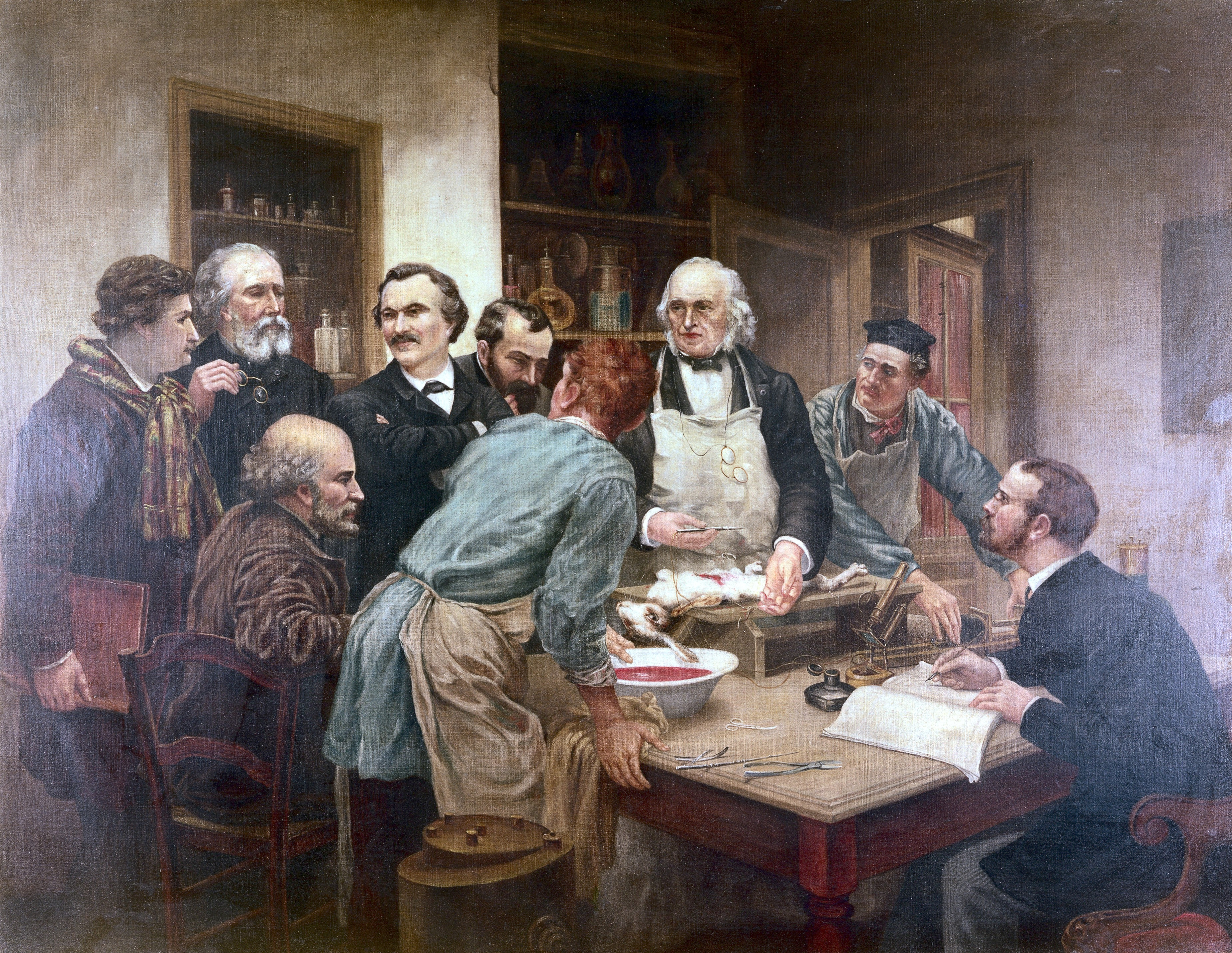 Claude Bernard and his pupils. Iconographic Collections Keywords: Physiology; Vivisection; Claude Bernard; Léon Augustin Lhermitte